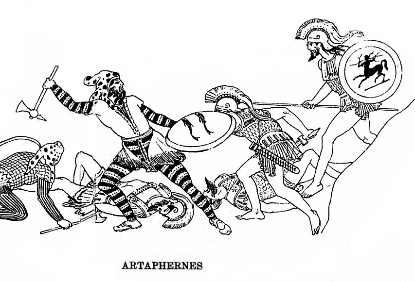 Artaphernes fighting the Greeks at the Battle of Marathon in the Stoa Poikile (reconstitution)